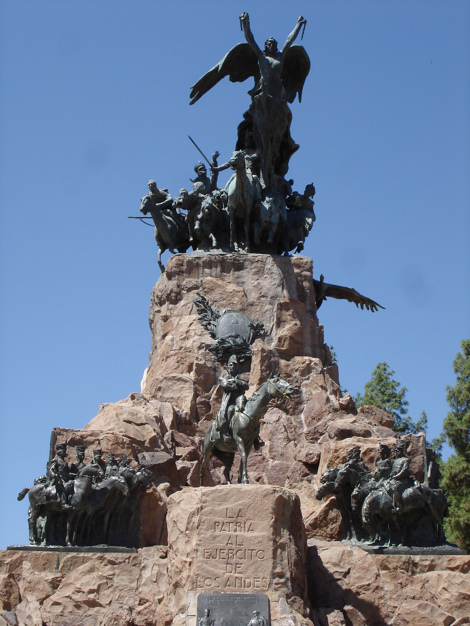 Statue representing Gral. José de San Martín and the Army that crossed the Andes, located at the "Cerro de la Gloria" in Mendoza, Argentina. The monument, sculpted by artist Juan Manuel Ferrari (1874-1916), was inaugurated in 1914.